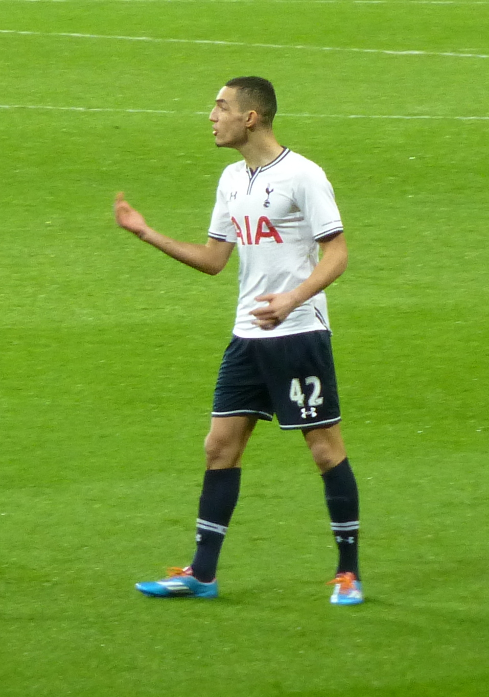 Nabil Bentaleb playing for Tottenham Hotspur.